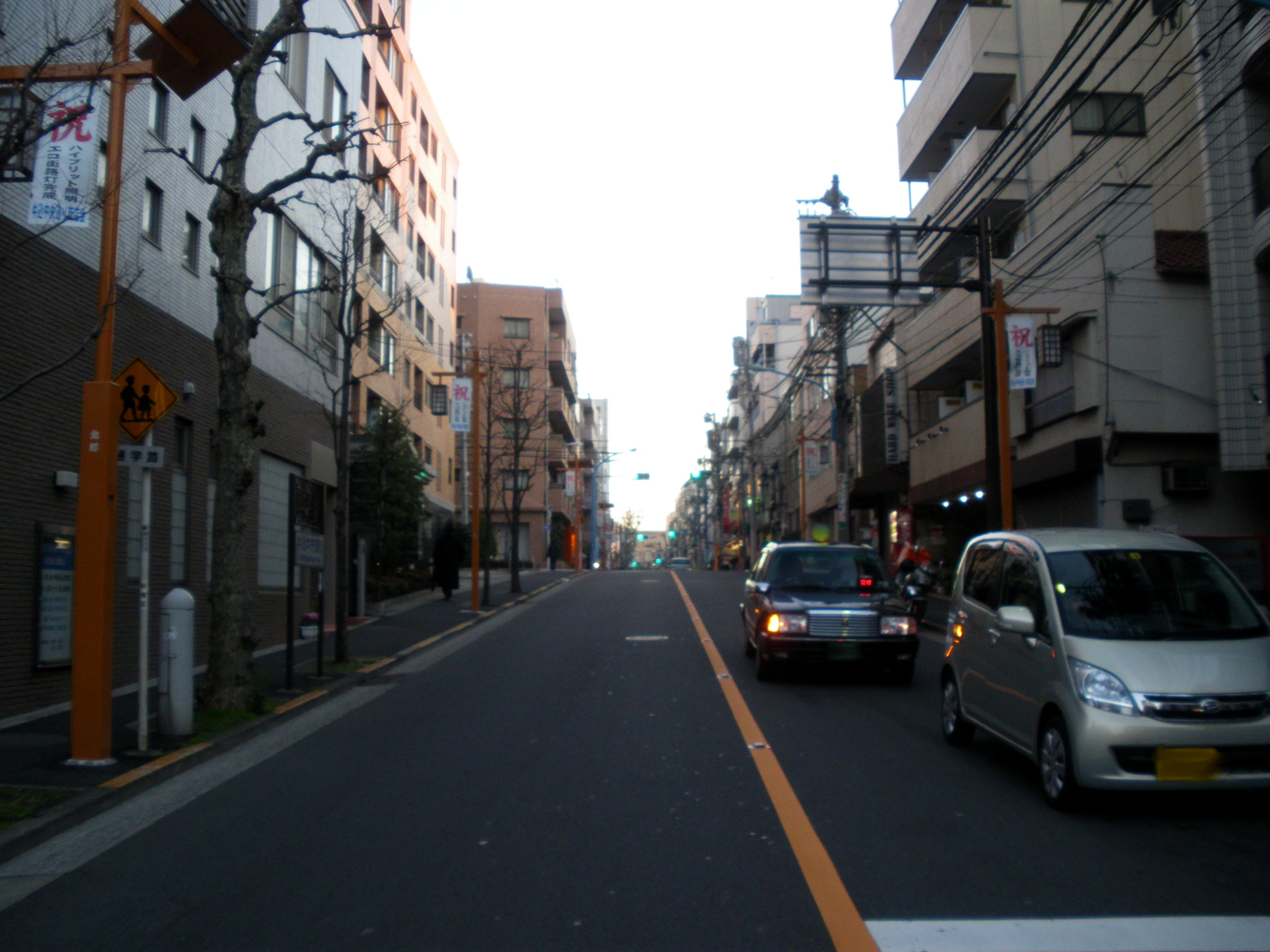 Ushigome Chuo Street(Shinjuku,Tokyo)